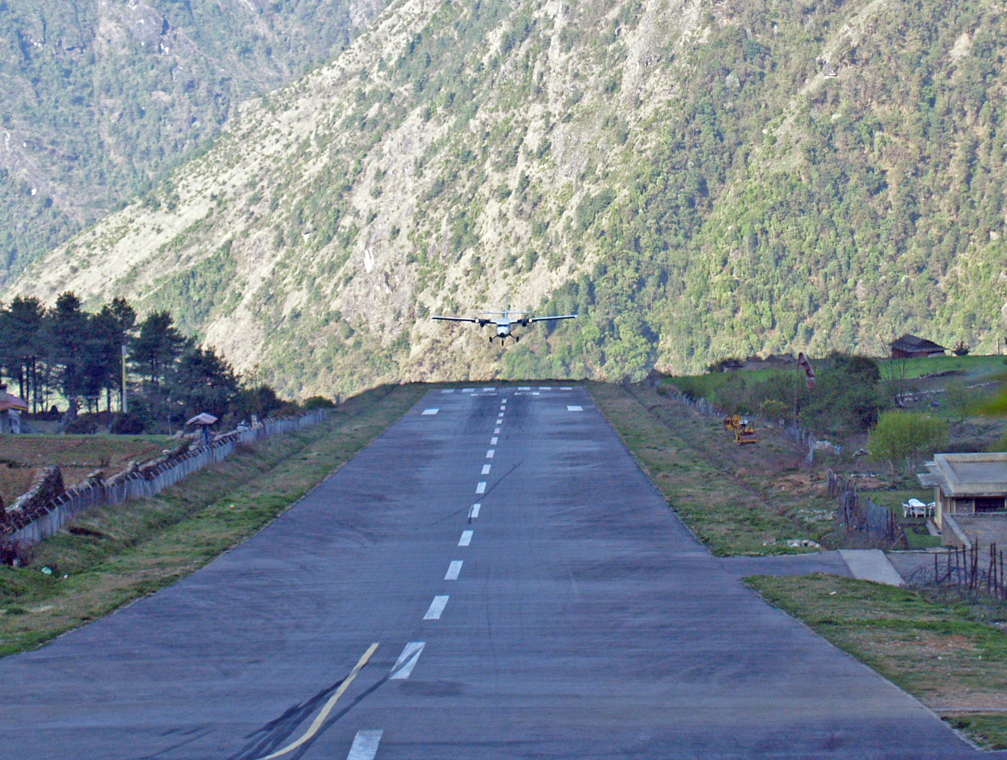 A De Havilland Canada DHC-6 Twin Otter aircraft lands at Tenzing-Hillary Airport in Lukla, Nepal